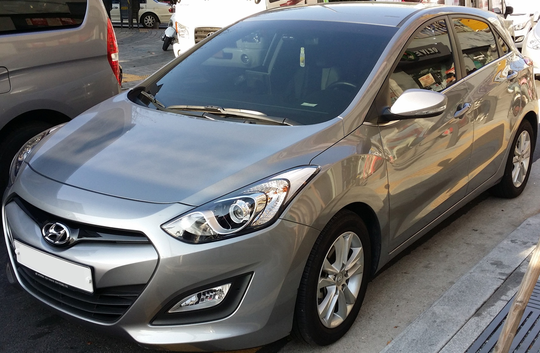 Hyundai i30